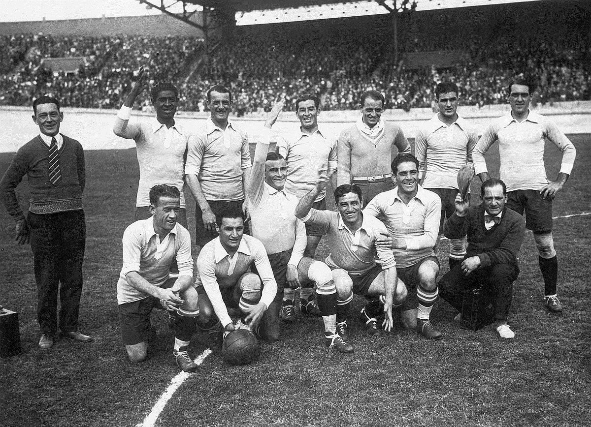 The Uruguay national football team that won the 1928 Olympic tournament. Fltr, (standing): Píriz, Nasazzi, Arispe, Mazali, Gestido, Fernández; (bended): Urdinarán, Castro, Petrone, Cea, Cámpolo, Ernesto Figoli (assistant coach).